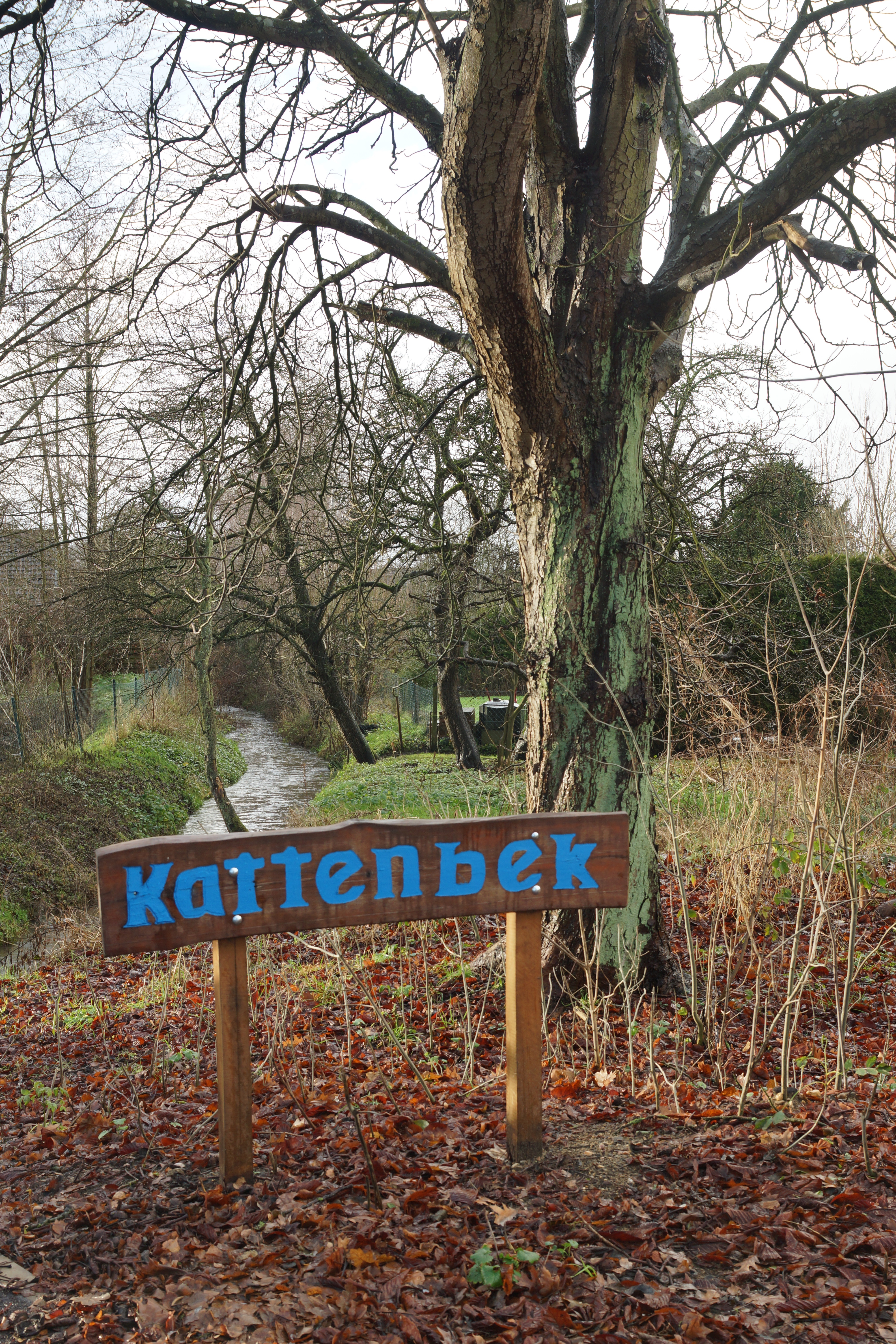 Oersdorf (Oersrdorf), Germany: Kattenbek